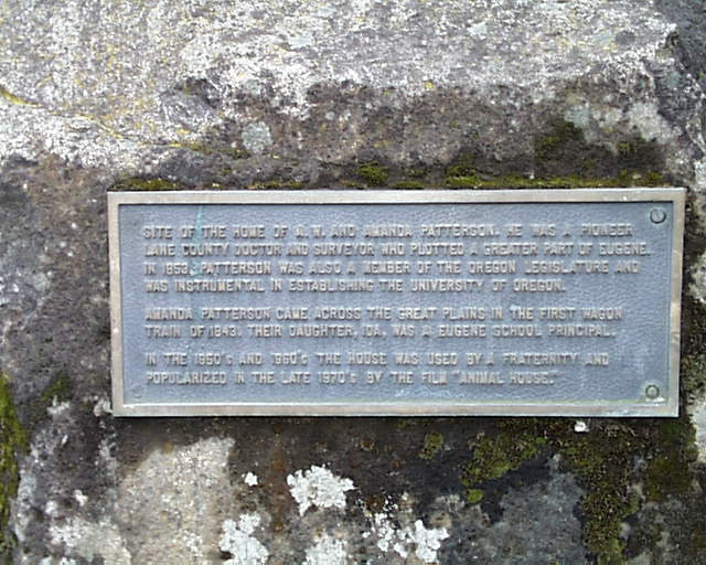 Plaque commemorating the Patterson House on E. 11th Ave. in Eugene, Oregon, used for filming National Lampoon's Animal House. The text reads: Site of the home of A. W. and Amanda Patterson. He was a pioneer Lane County doctor and surveyor who plotted a greater part of Eugene. In 1853, Patterson was also a member of the Oregon legislature and was instrumental in establishing the University of Oregon Amanda Patterson came across the Great Plains in the first wagon train of 1843. Their daughter, Ida, was a Eugene school principal. In the 1950's and 1960's the house was used by a fraternity and popularized in the 1970's by the film "Animal House."